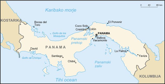 Map of Panama in Slovene.